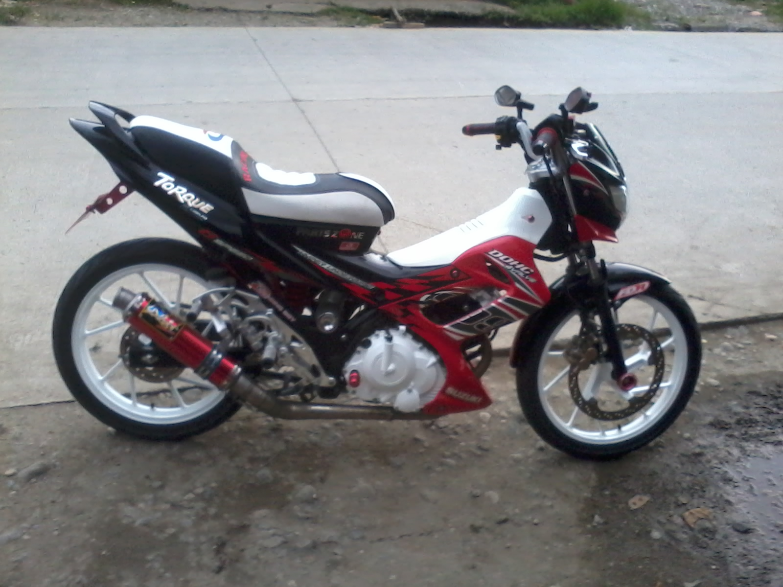 This is a privately owned example of the 2013 Model. Lots of aftermarket parts have been installed and the stock decals have been modified, along with some paintwork for both engine and body covers.